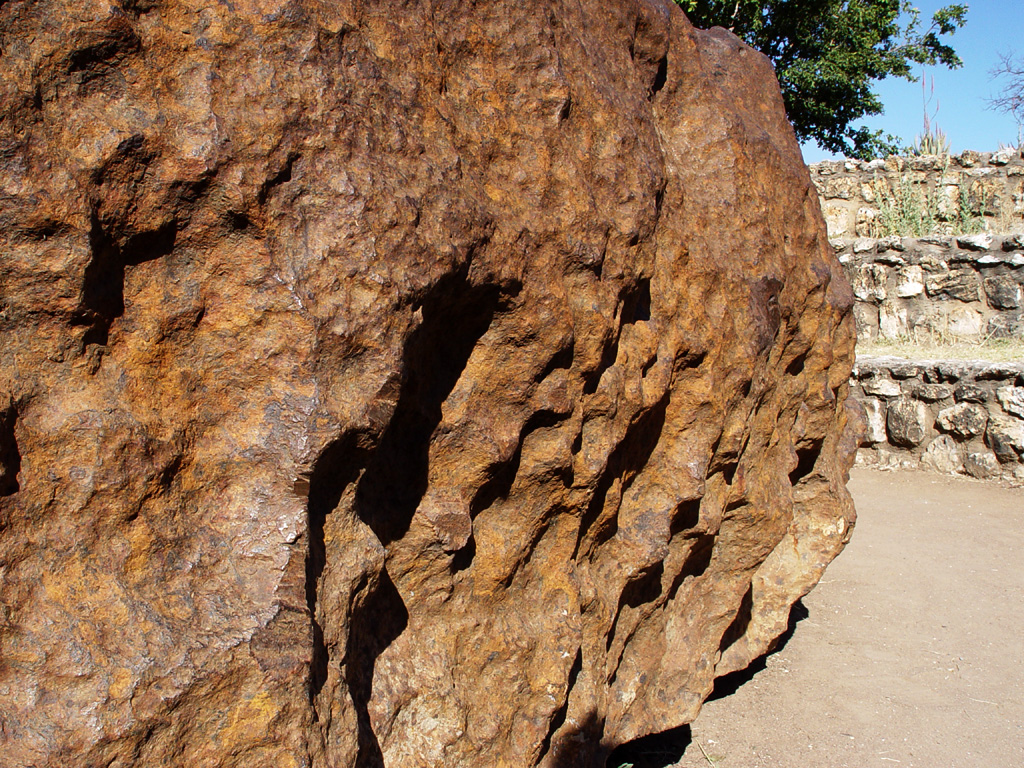 The Hoba meteorite is the largest known meteorite found on Earth, as well as the largest naturally-occurring mass of iron known to exist on the earth. The meteorite, named after the Hoba West Farm in Grootfontein, Namibia where it was discovered in 1920, has not been moved since it landed on Earth over 80,000 years ago. ( via Wikipedia )